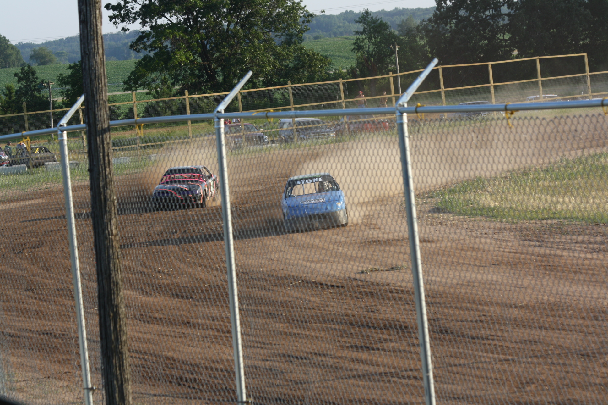 Four cylinder race cars racing at Amherst Speedway in Amherst, Wisconsin at the Portage County Fairgrounds. Stone was the track champion in this class for 2013. The speedway closed after this event and has not held races since (as of 2018).